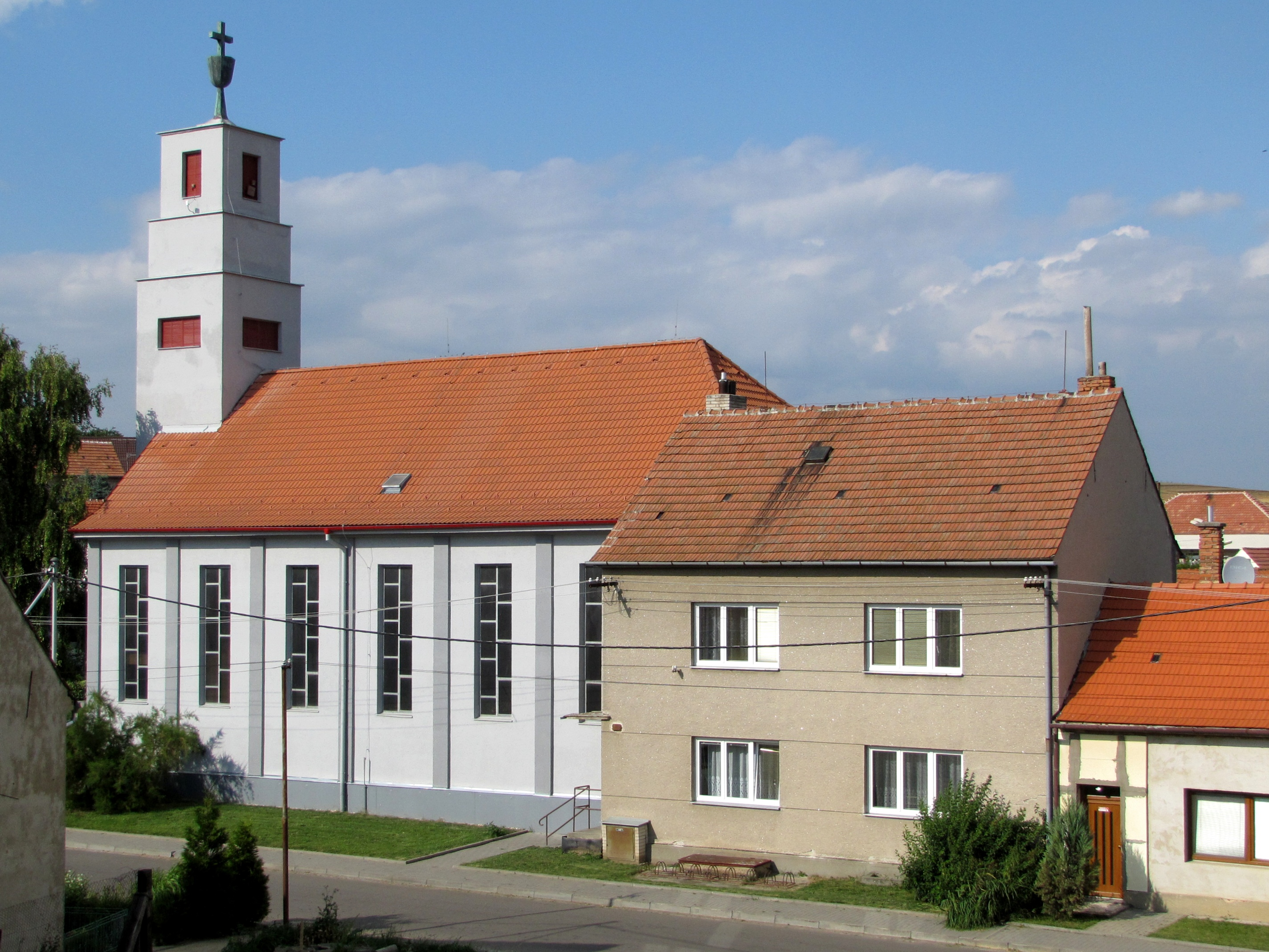 Chrám Spasitele - kostel Církve československé husitské v Hovoranech z roku 1957 a fara (dům vpravo)